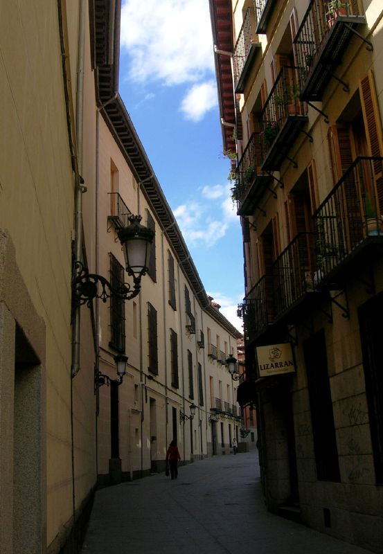 Pasa St., Madrid, Spain